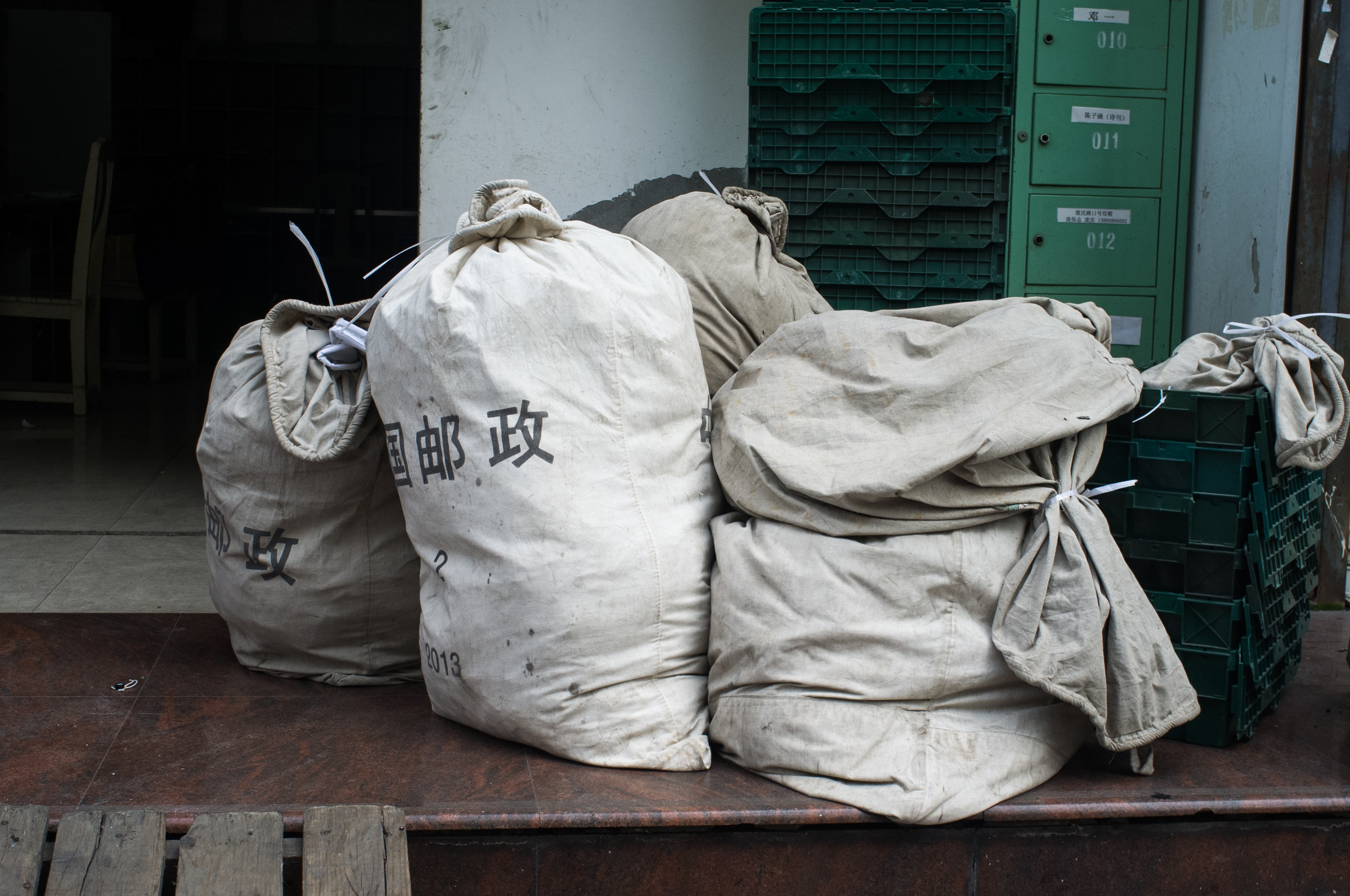 Mailbags of Chinapost